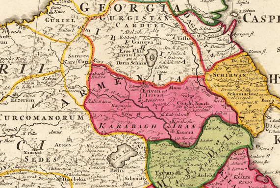 Armenia from Johann Homann's map of Perisa